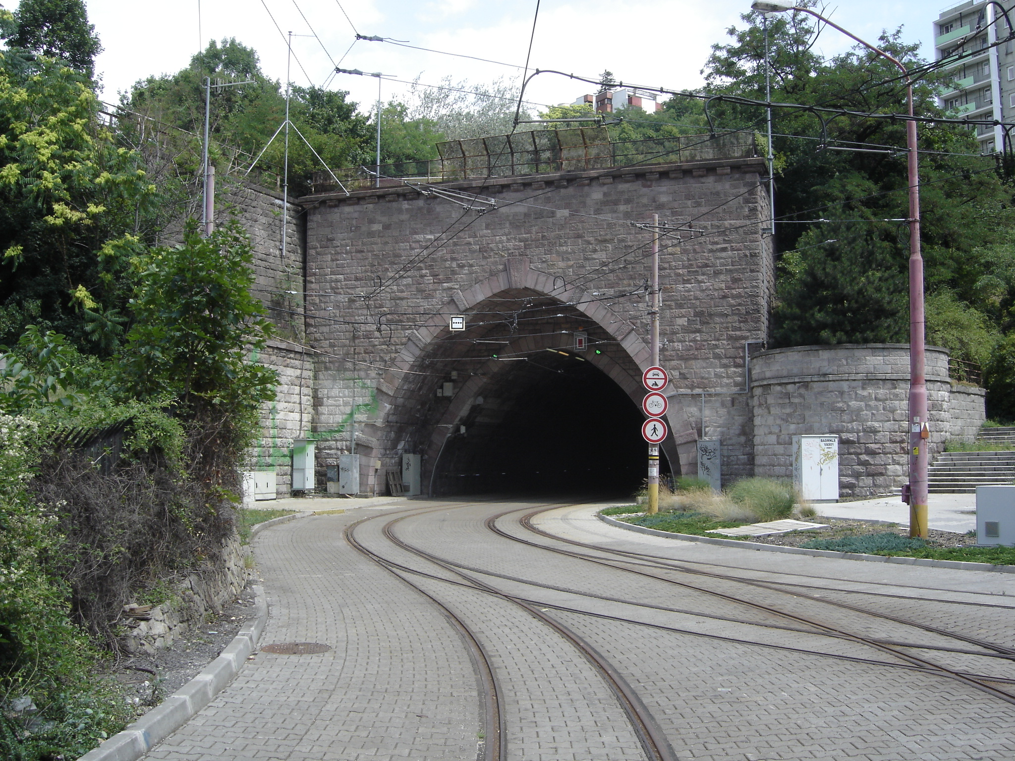 Električkový tunel